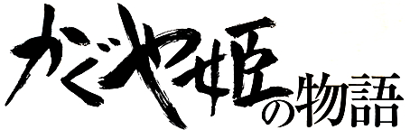 Kaguya-hime no monogatari title